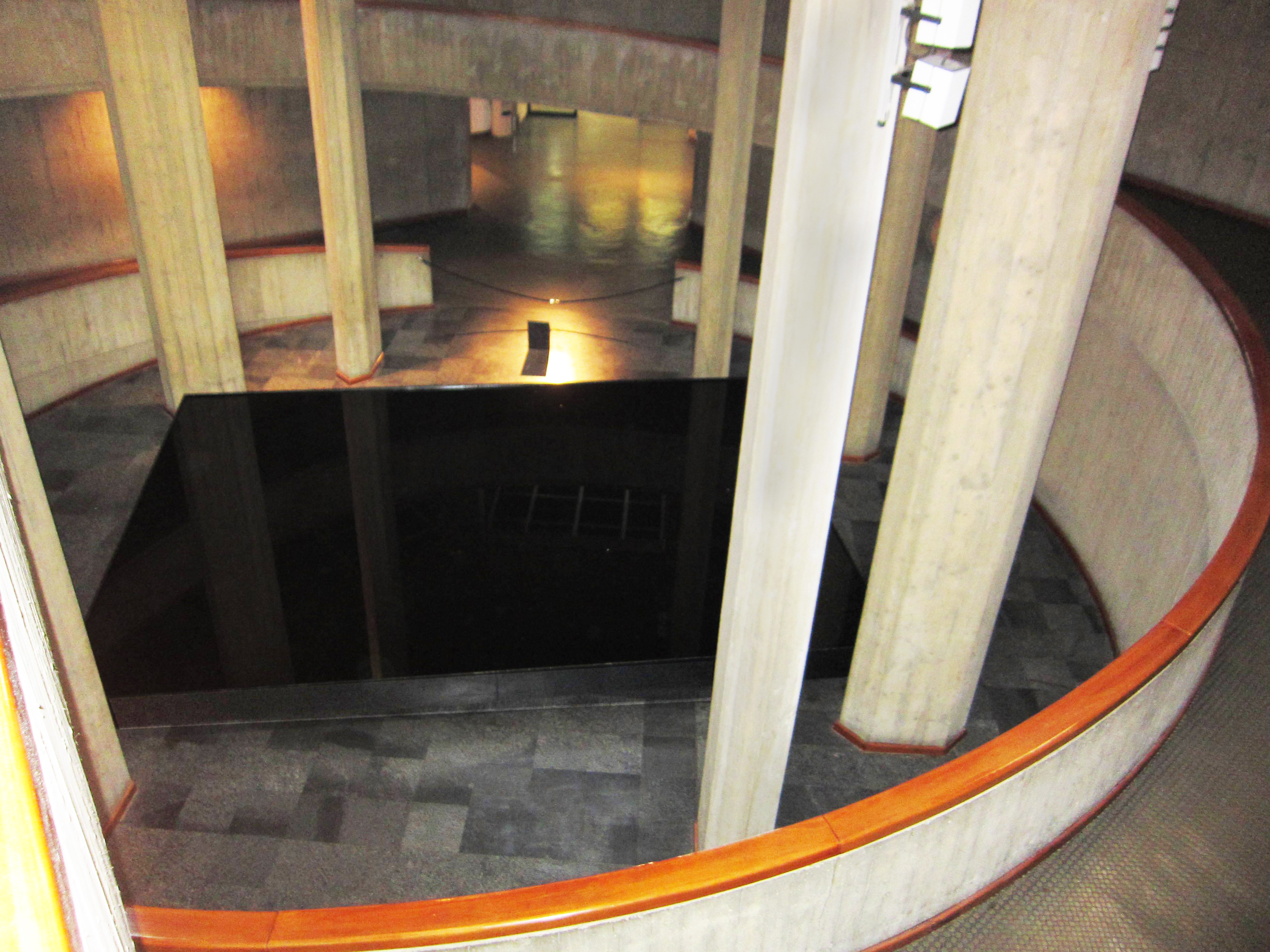 The Interior of Tehran Museum of Contemporary Art